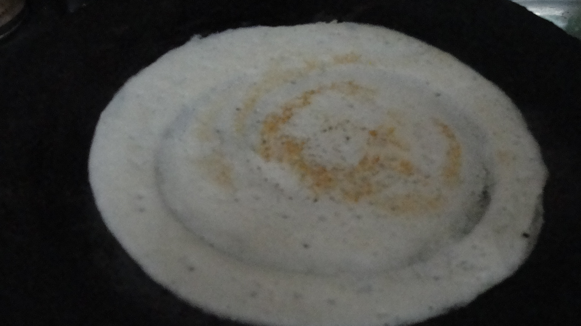 This picture depicting Dhosai. This one of mian dish of Tamils.